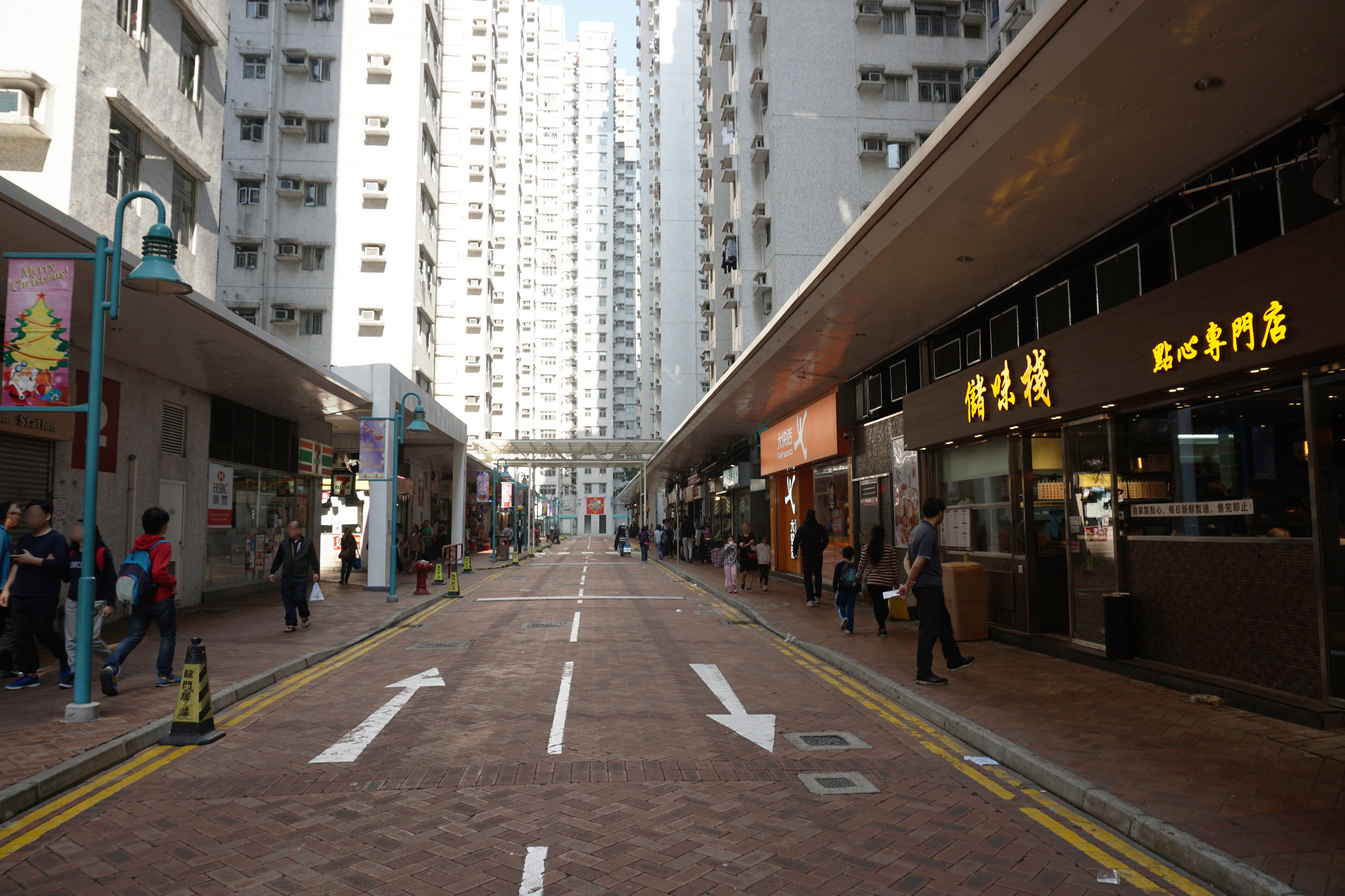 Lung Mun Oasis in Tuen Mun, Hong Kong.